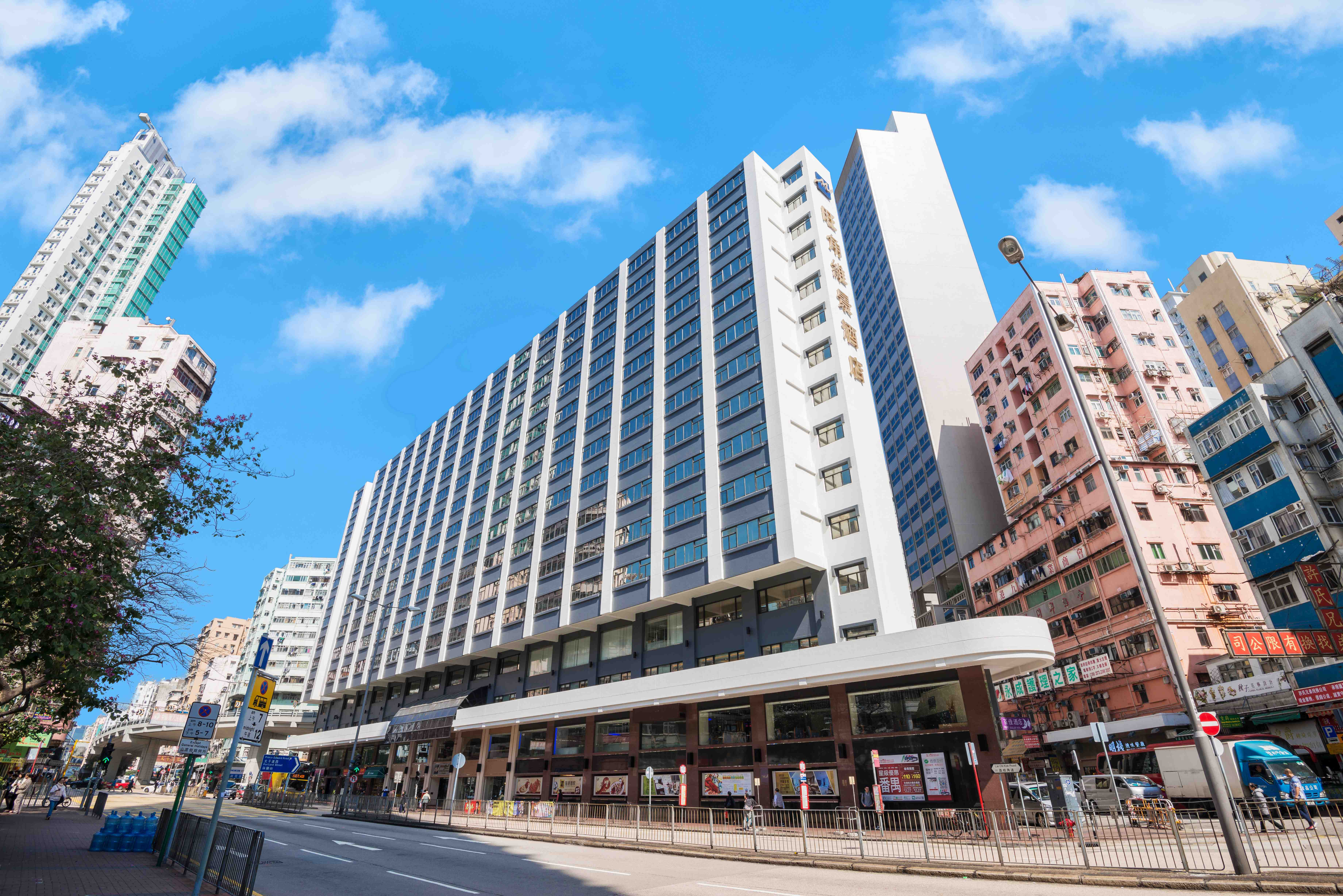 Metropark Hotel Mongkok